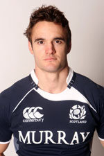 Thom Evans national squad